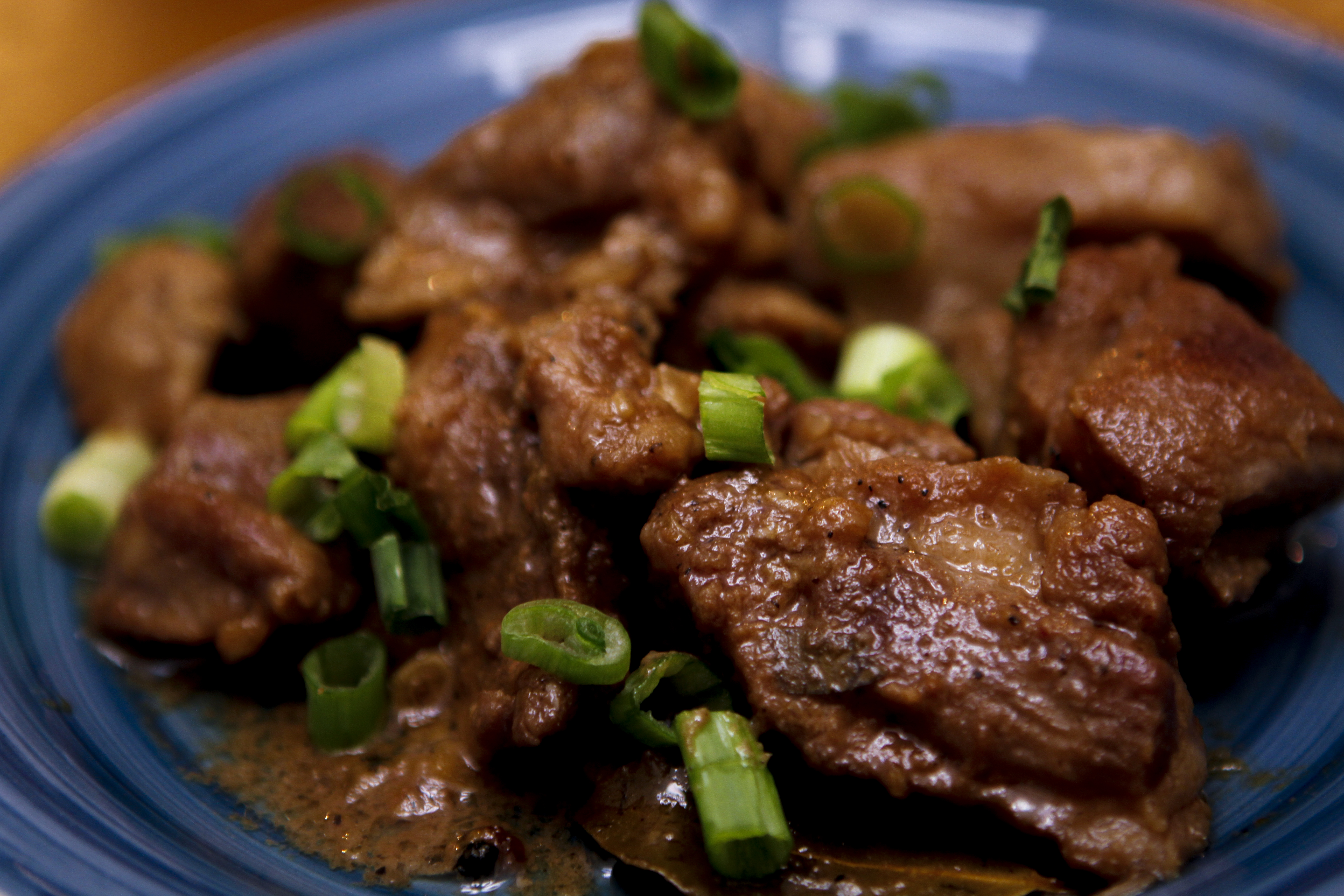 Pork adobo with shallots